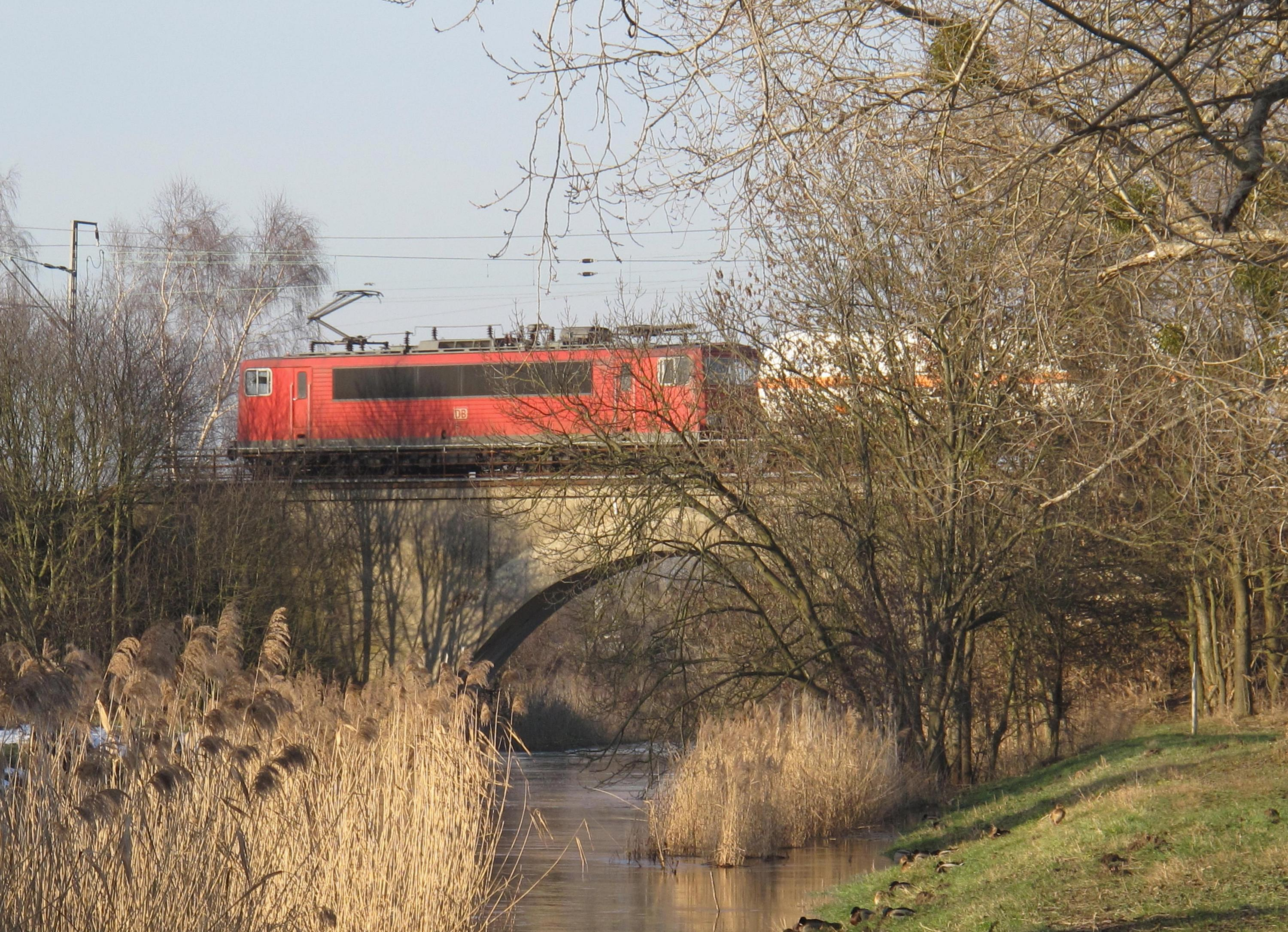 Railwaybridge of the Berliner Außenring (railway circle line in Berlin and Brandenburg) over the river Nuthe in Saarmund, municipality Nuthetal, Brandenburg, Germany. The bridge and the railway embankment mark in this region the northern border of the Nuthe-Nieplitz Nature Park.